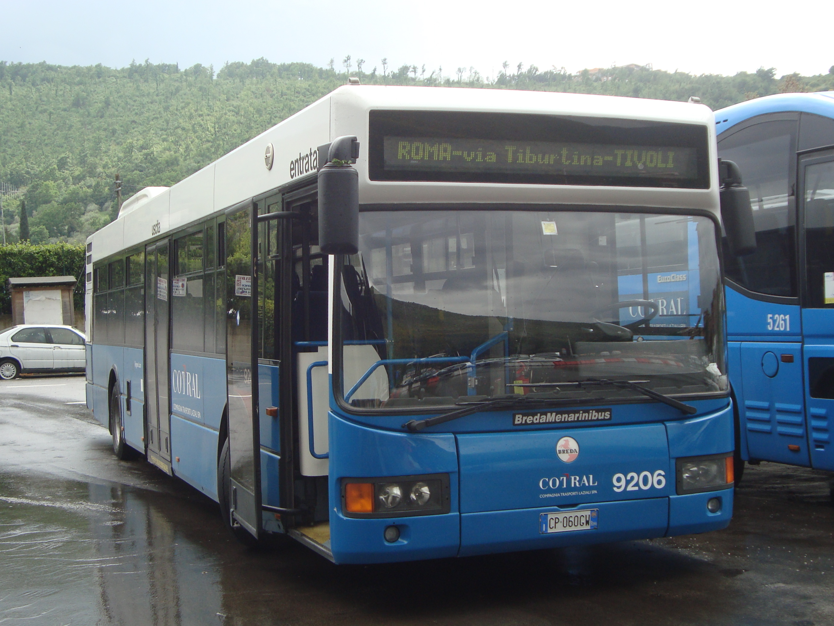 The COTRAL bus line from Rome to Tivoli